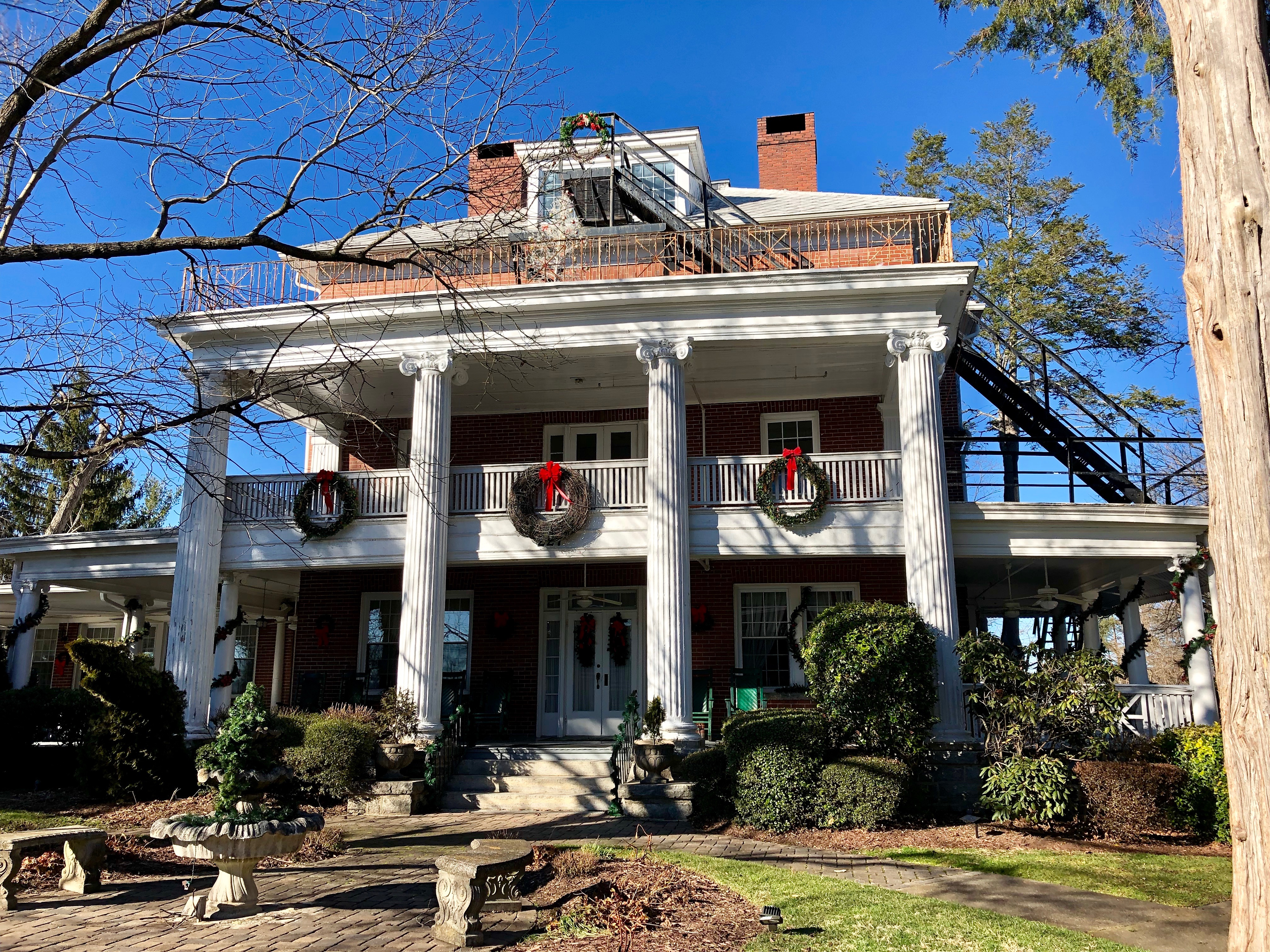 Historic Hotel Building in Hendersonville, NC, constructed in 1914 and listed on the National Register of Historic Places in 1989